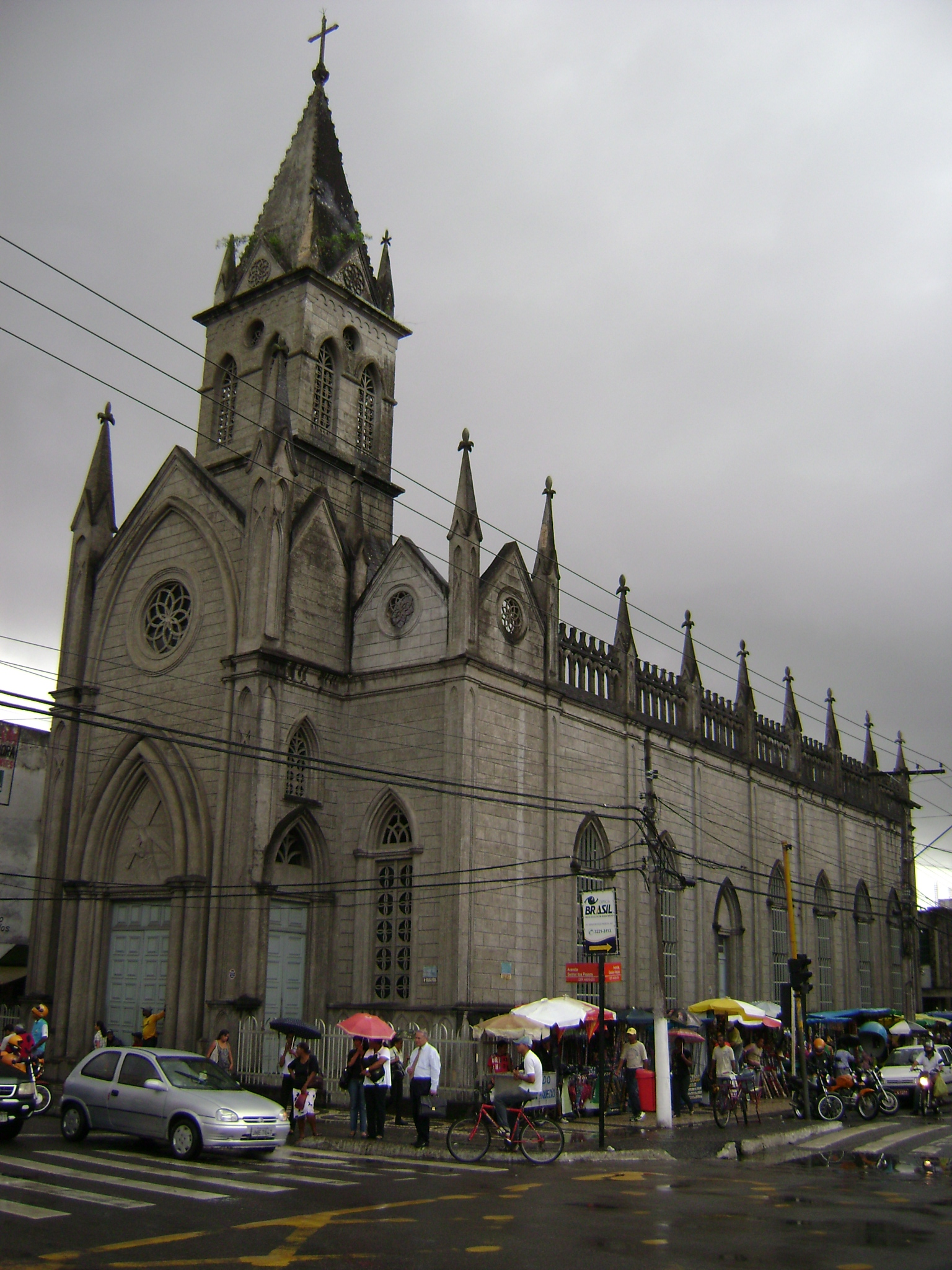 Church em Feira de Santana, Bahia, Brazil.